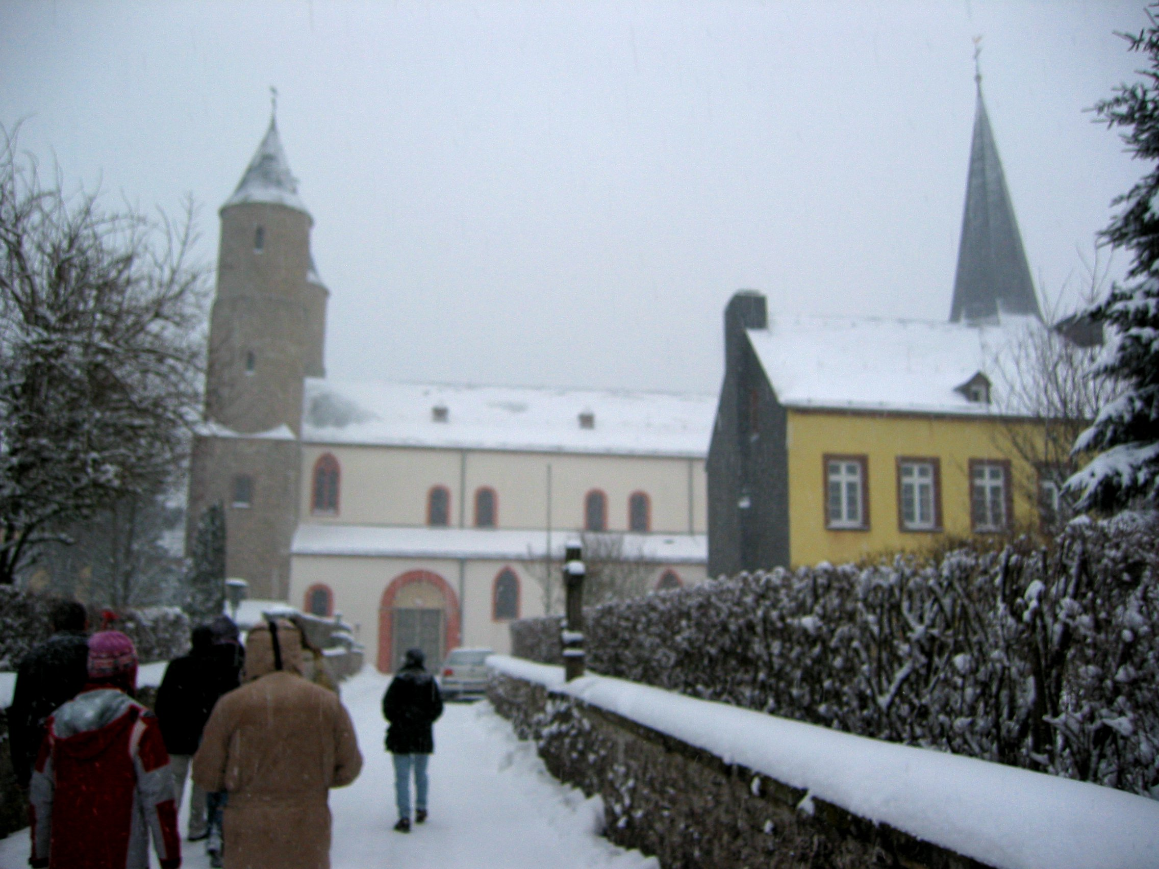 Cloister/convent/monastery Steinfeld in Germany.